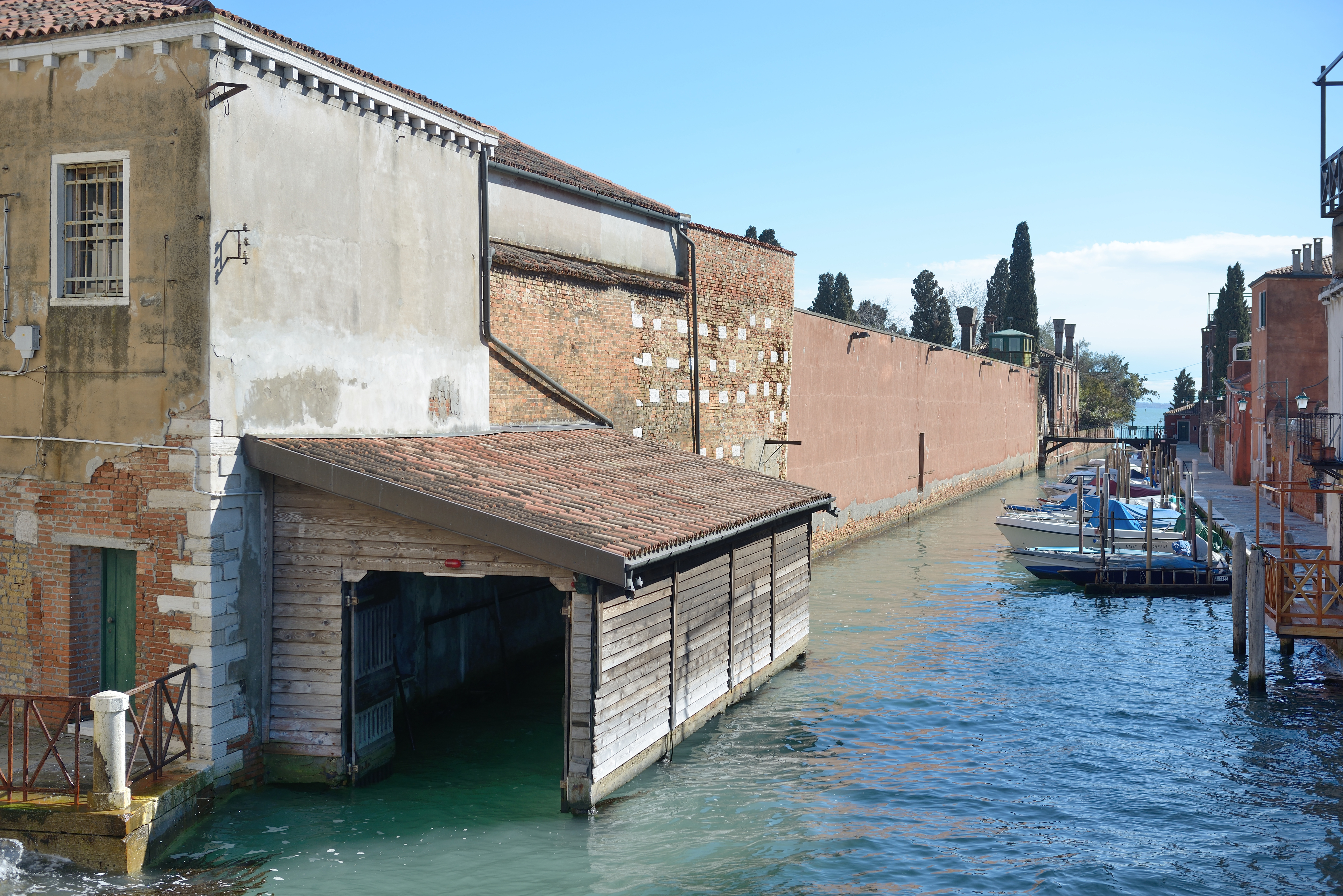 The Rio de la Croce canal on the island Giudecca and the juvenile prison on the left in Venice .